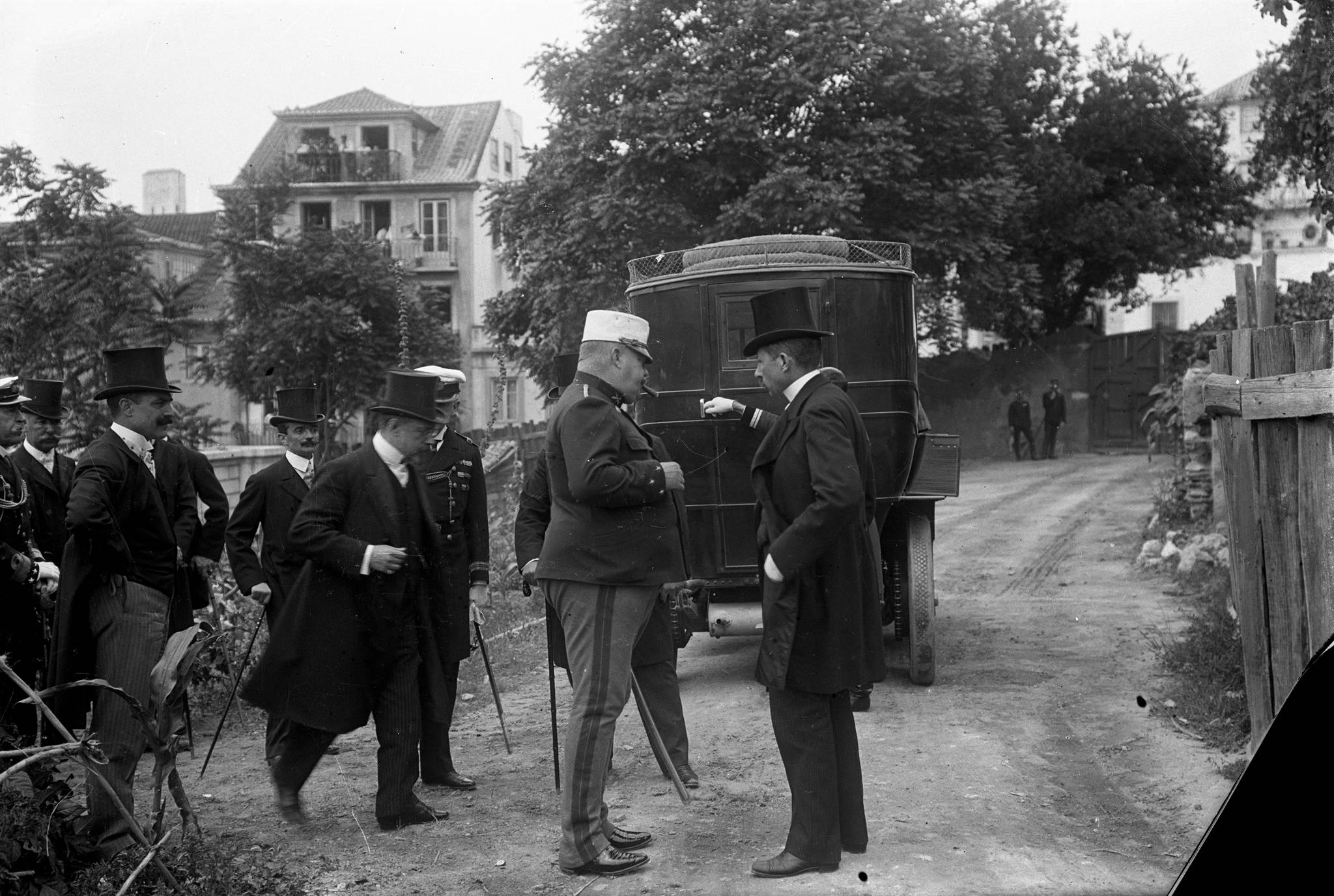 King Charles I of Portugal and João Franco, prime-minister, on the site where the Passos Manuel Lyceum would be built. 1907.